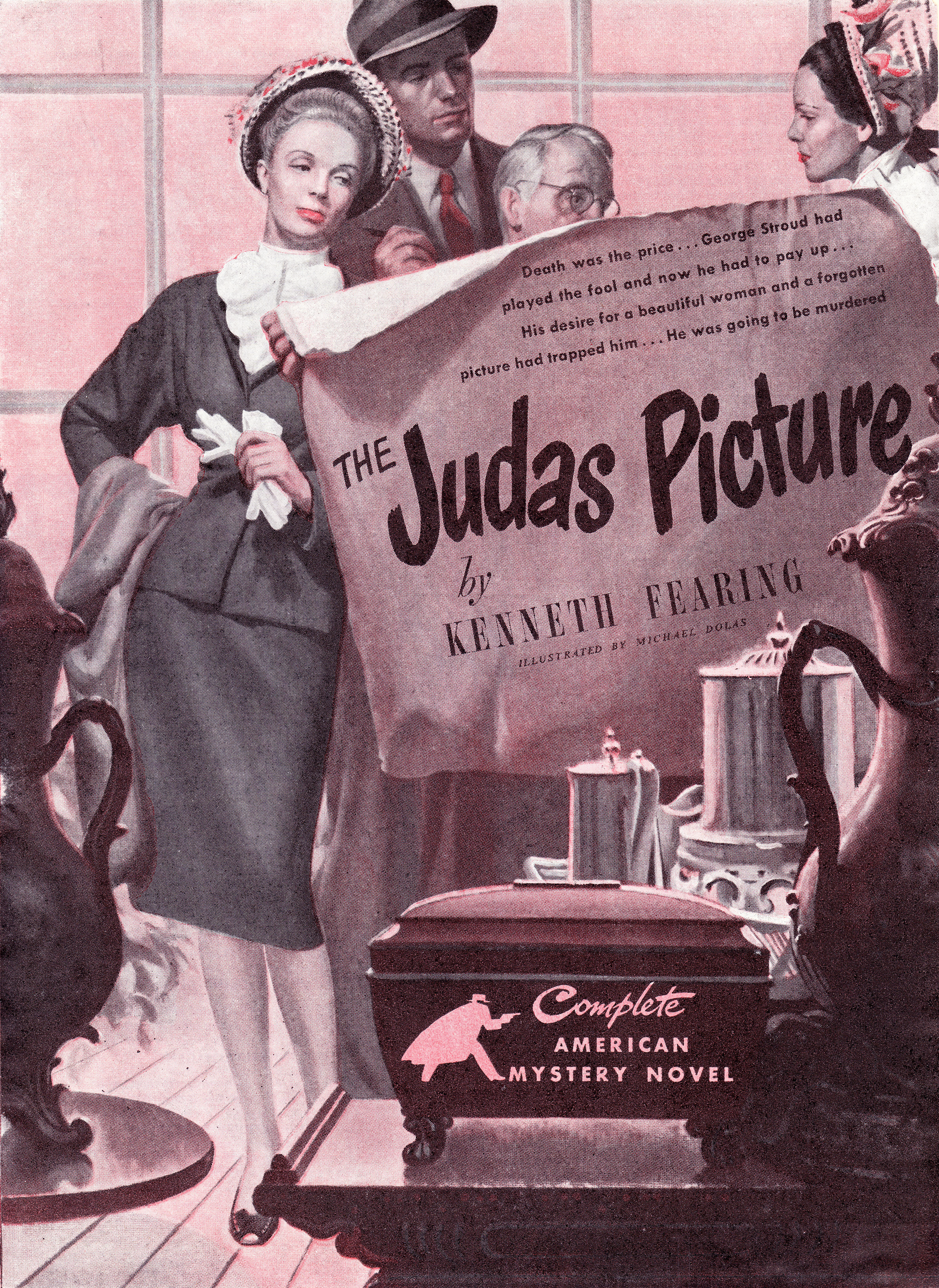 Illustration from The American Magazine printing of "The Judas Picture", by Kenneth Fearing, an abridged version of the story subsequently published as the novel The Big Clock